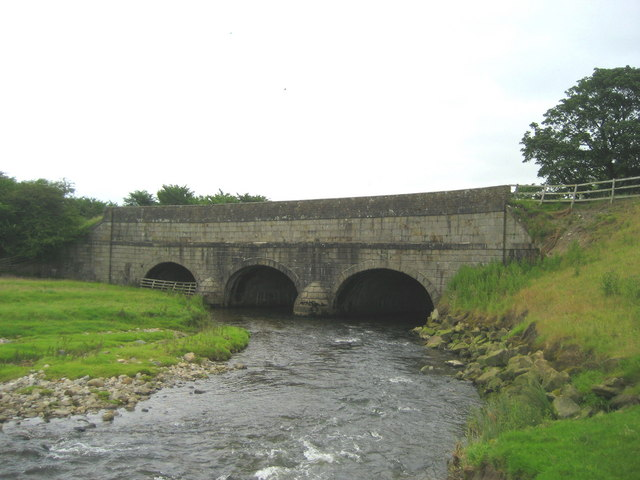 Canal crossing the River Aire This impressive structure carries the Leeds and Liverpool Canal over the River Aire, looking downstream.